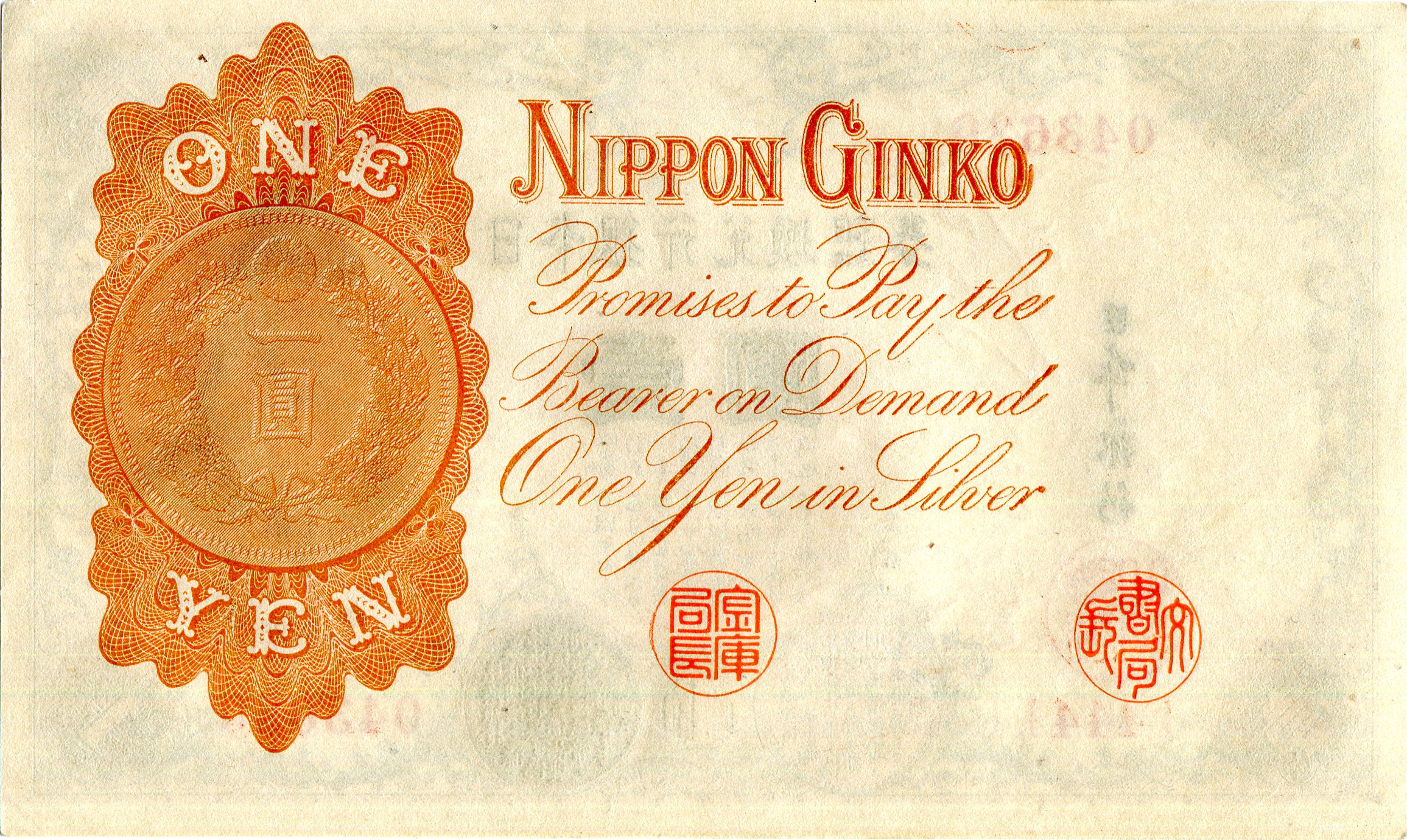 Revised 1 Yen Bank of Japan silver convertible note. First Issed in 1889. Now defined as nonredeemable legal tender note by law. 145mm x 85mm.